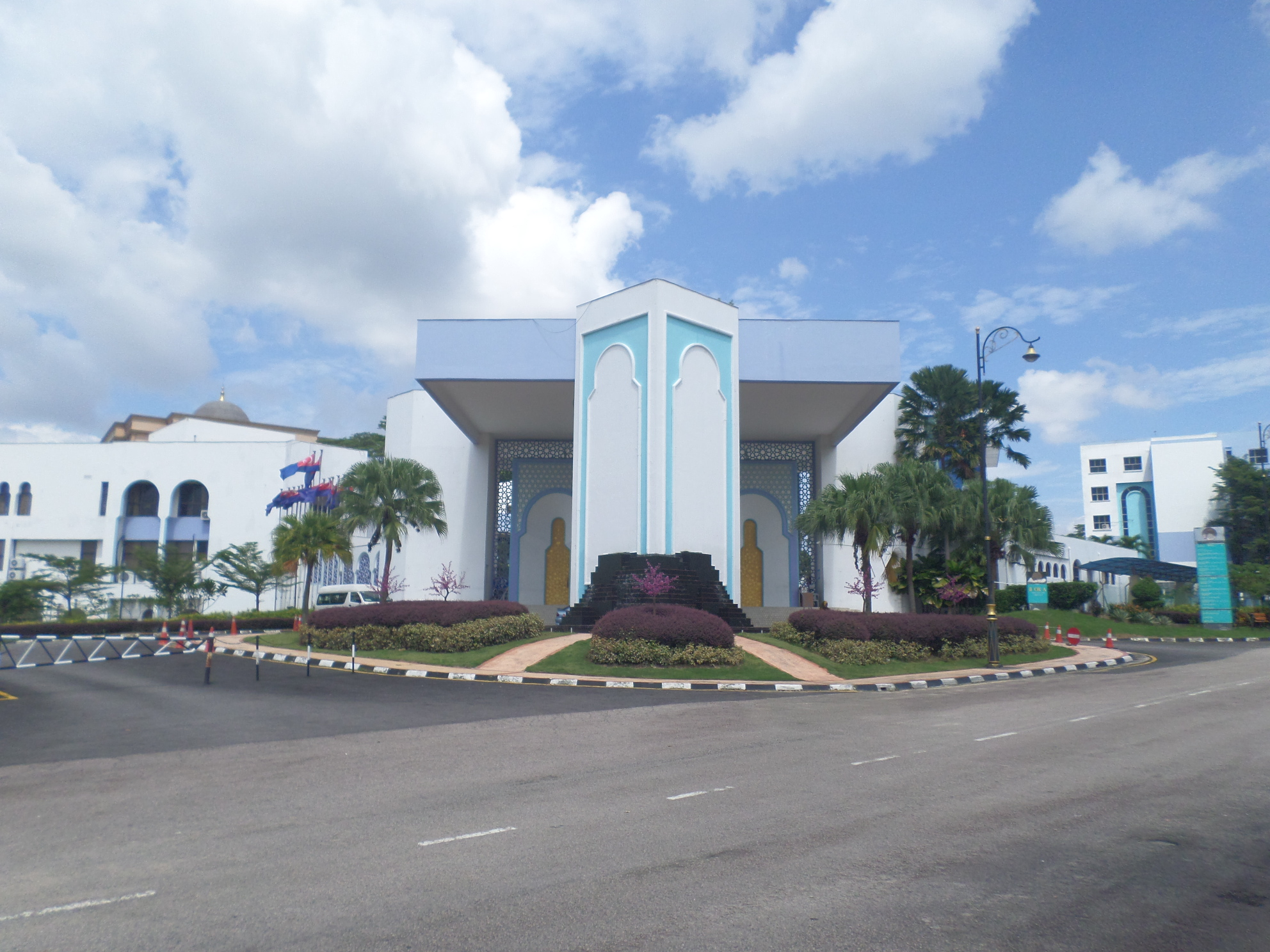 Iskandar Johor Islamic Center, Johor Bahru, Johor, Malaysia